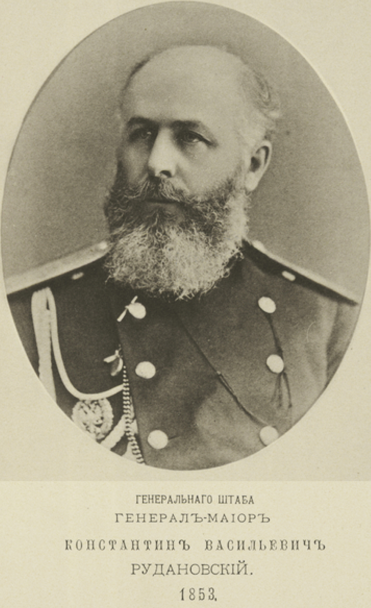 Taken at General base in 1853